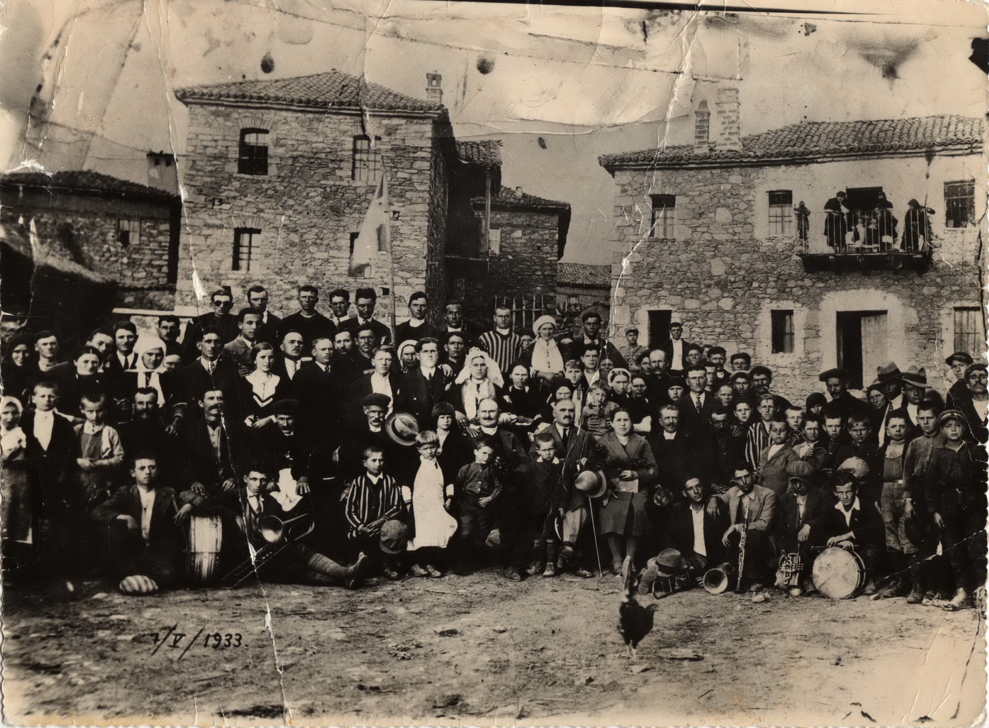 Wedding of Lambro Naumov in Papli, Prespes region